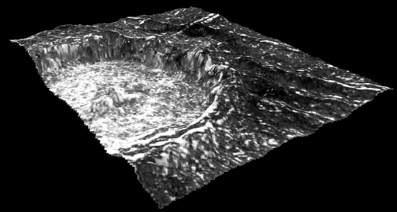 A 3D model of the crater Cilix on Europa based on Galileo data.